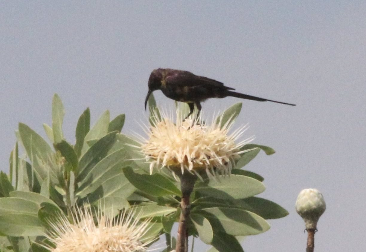 Bocage's sunbird at the Kwando river crossing in Angola